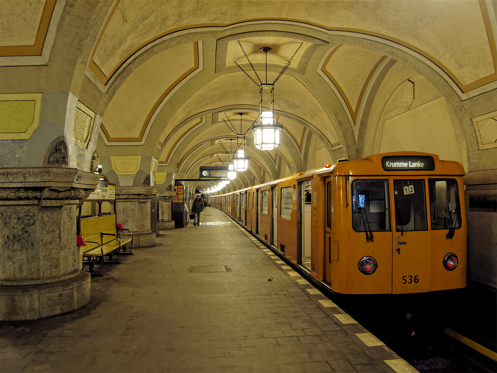 Subwaystation "Heidelberger Platz" in Berlin-Wilmersdorf, line U3